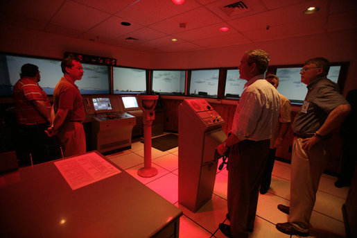 President George W. Bush drives a boat training simulator during a tour of the Paul Hall Center for Maritime Training and Education on Monday, September 4, 2006. White House photo by Kimberlee Hewitt